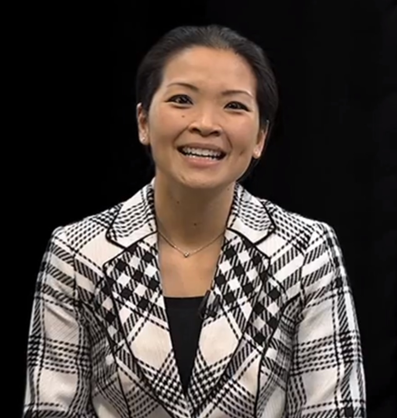 Young Global Leaders 2012 - Lynn Loo